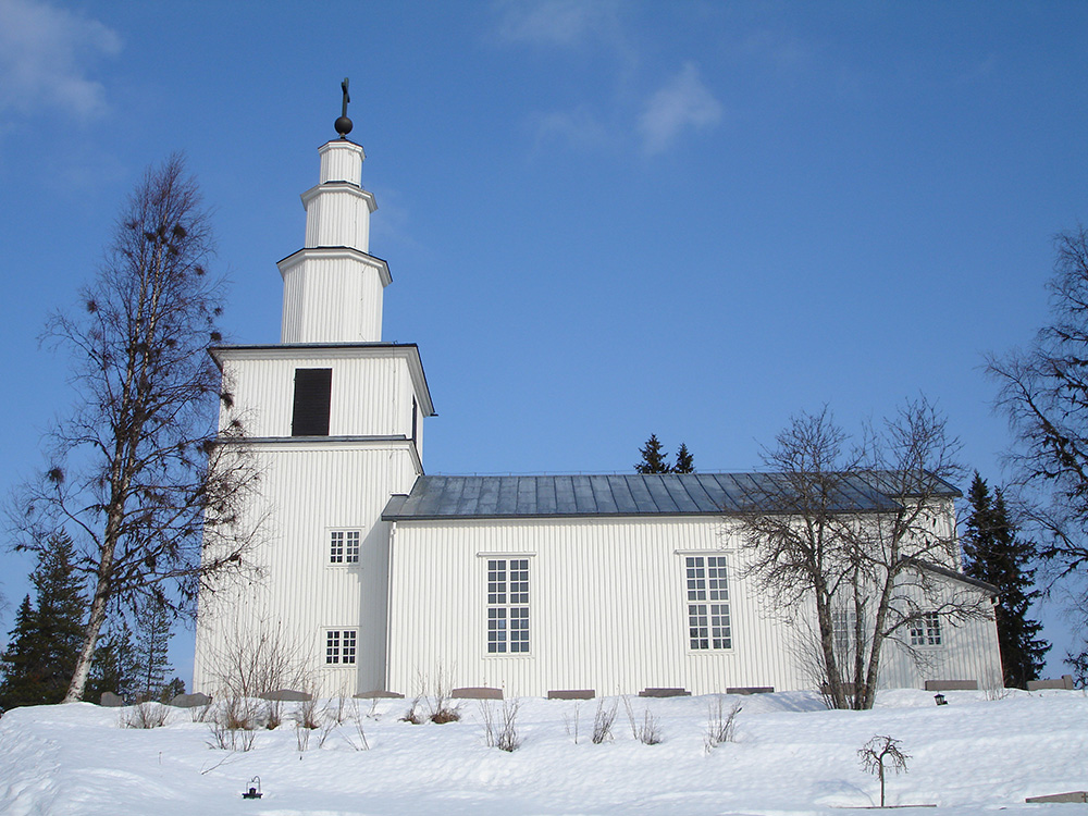 Latikberg church, Vilhelmina lutheran parish, Västerbotten county, Sweden.